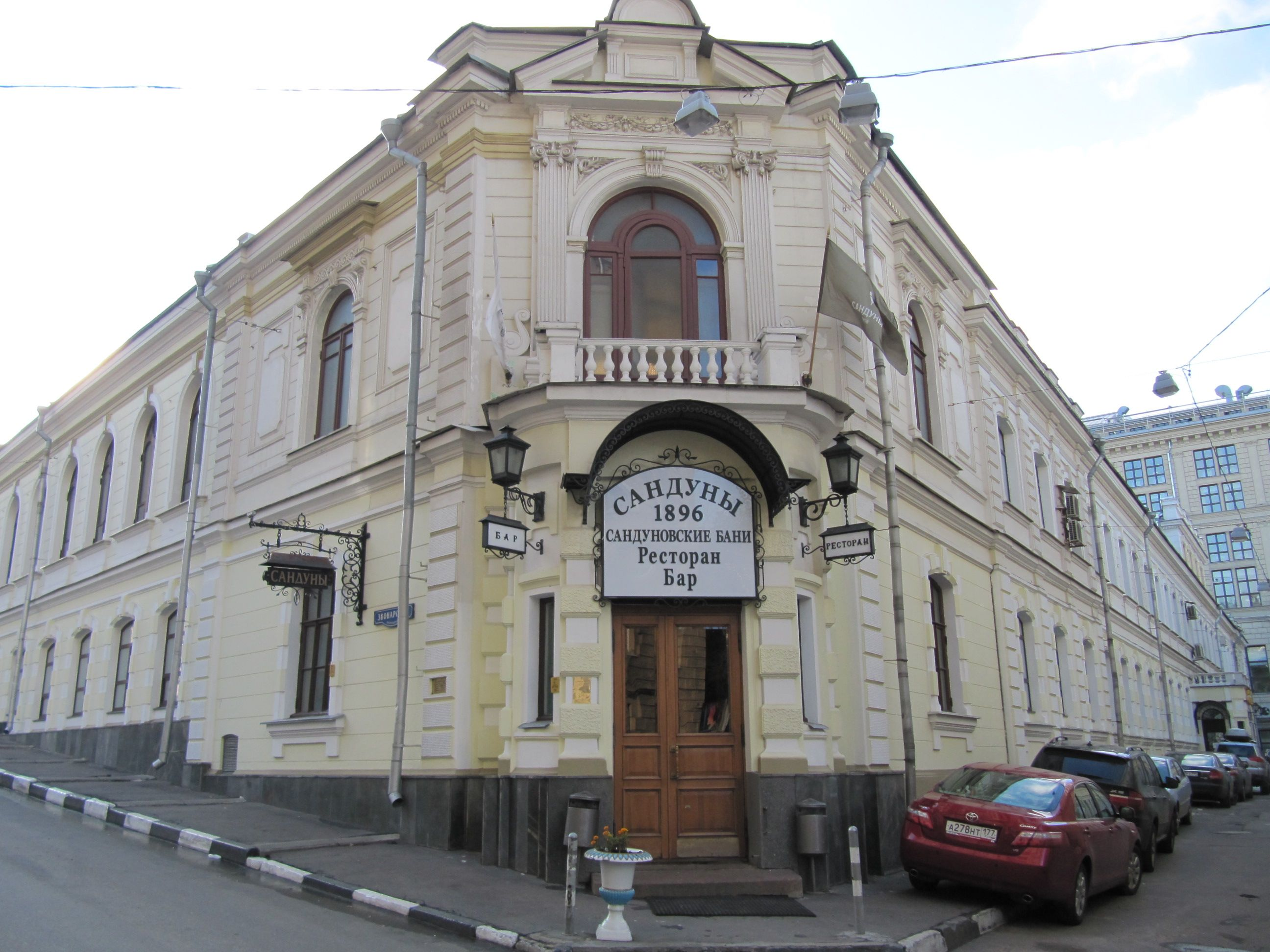 Sanduny Bath in Moscow